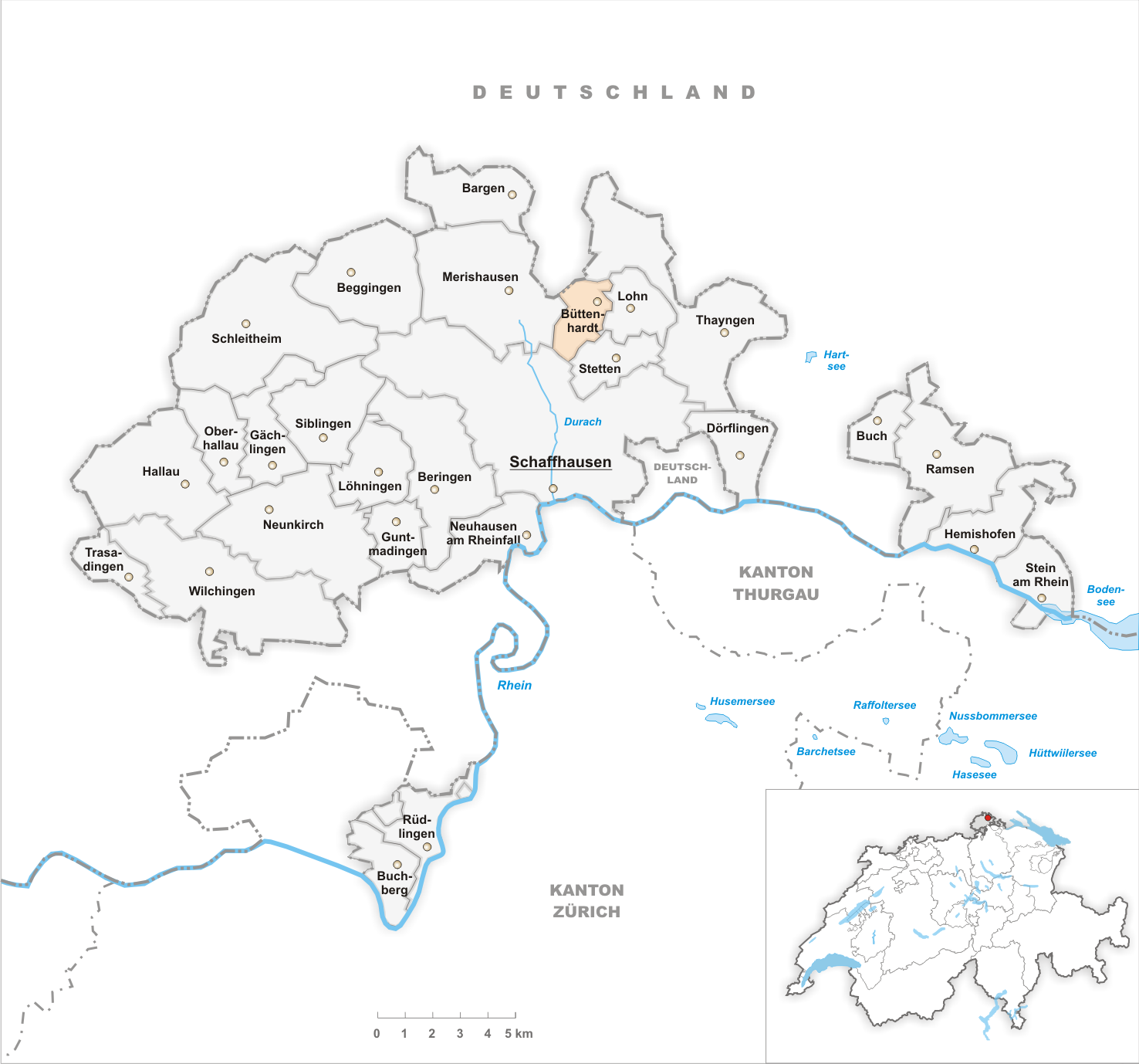 Municipality Büttenhardt